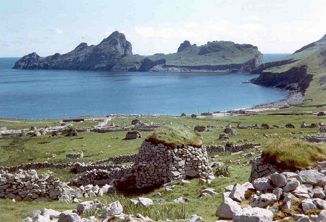 Village Bay, Hirta, St Kilda, Scotland.